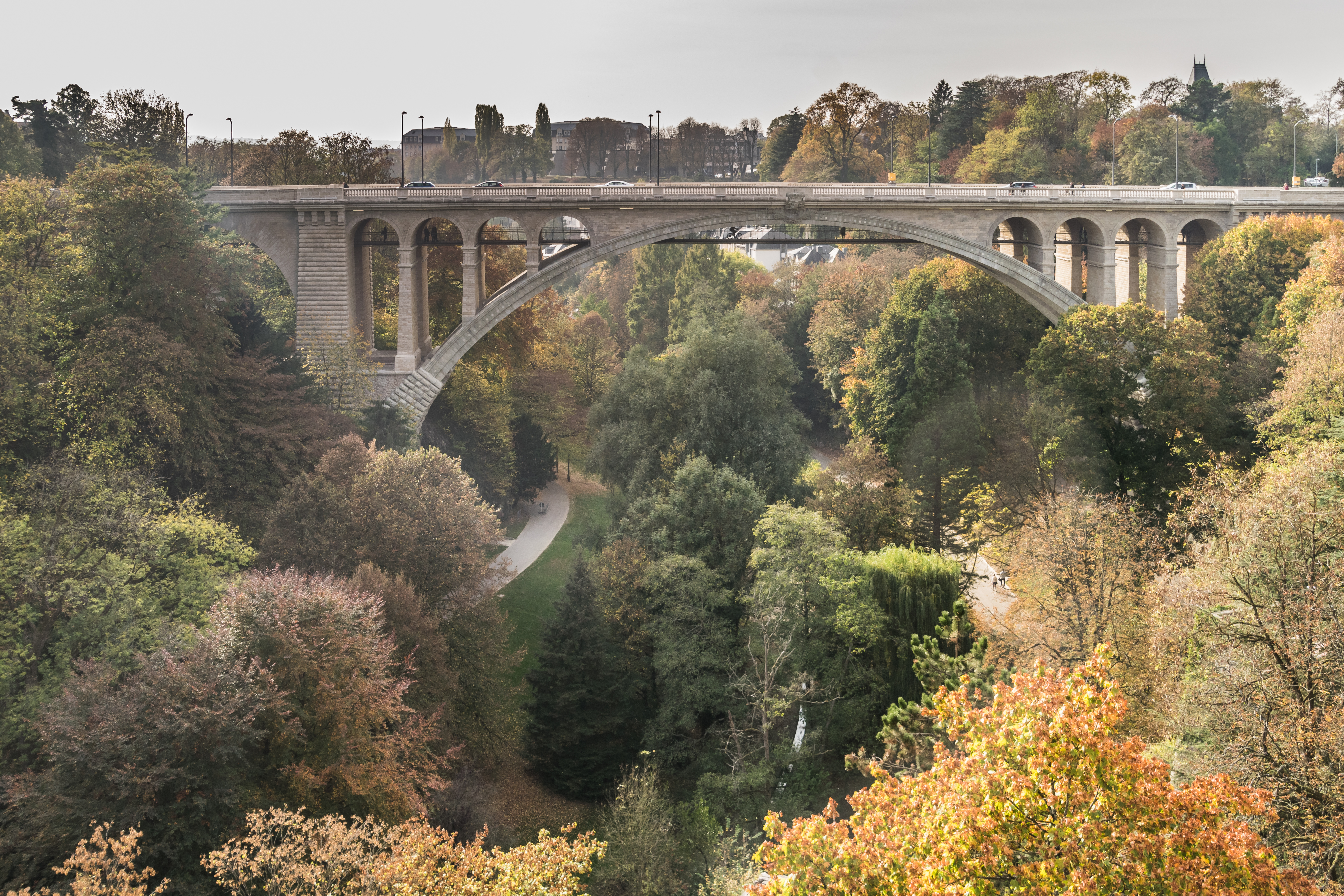 Adolphe Bridge over the valley of Pétrusse river in Luxembourg City, Luxembourg